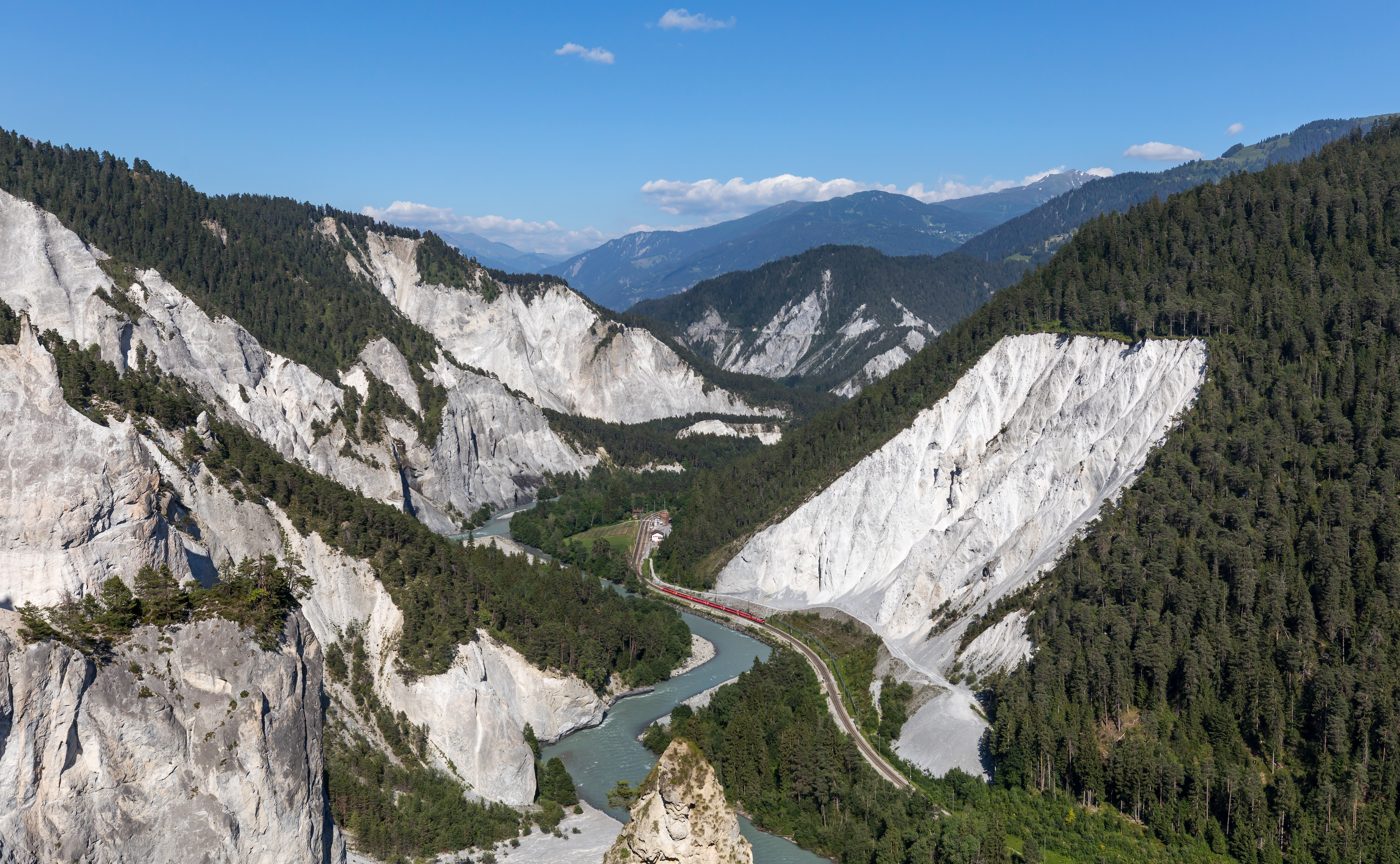 A Ge 6/6 II hauls a RegioExpress from Chur to Disentis through the Ruinaulta near Versam-Safien station, Switzerland.